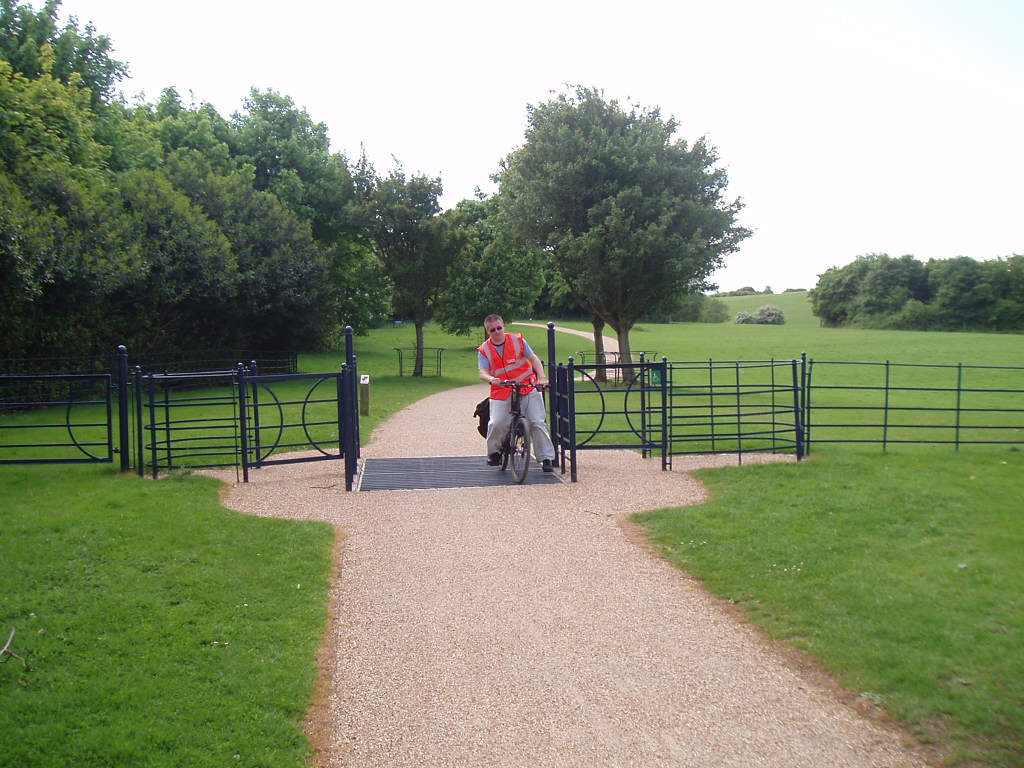 NCR 51 cycleway, through parkland to the east of Milton Keynes